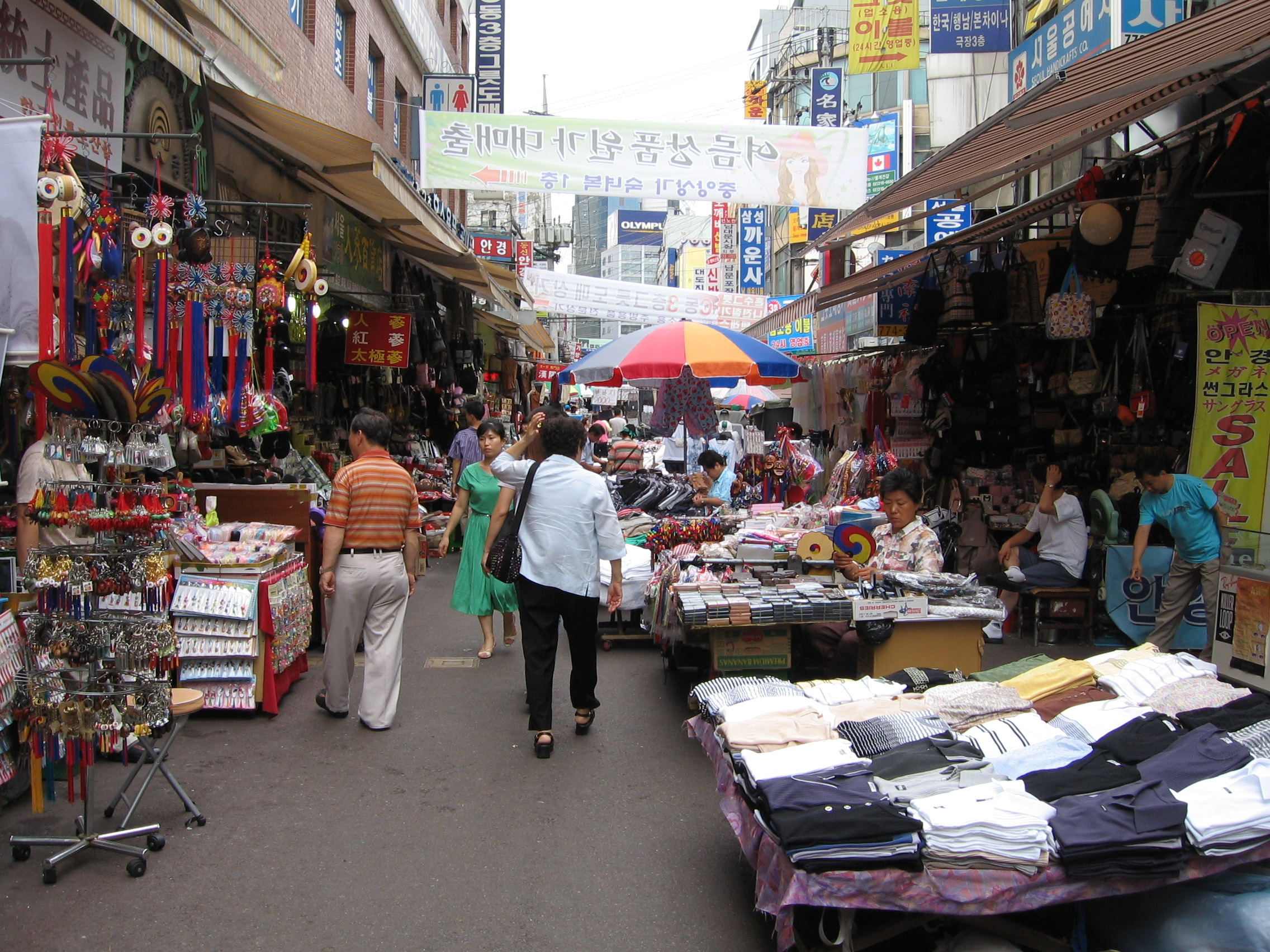 The Namdaemun Market in Seoul Taken by myself (iGEL (talk) 03:55, 8 October 2005 (UTC), Johannes Barre) on 2005-August-07